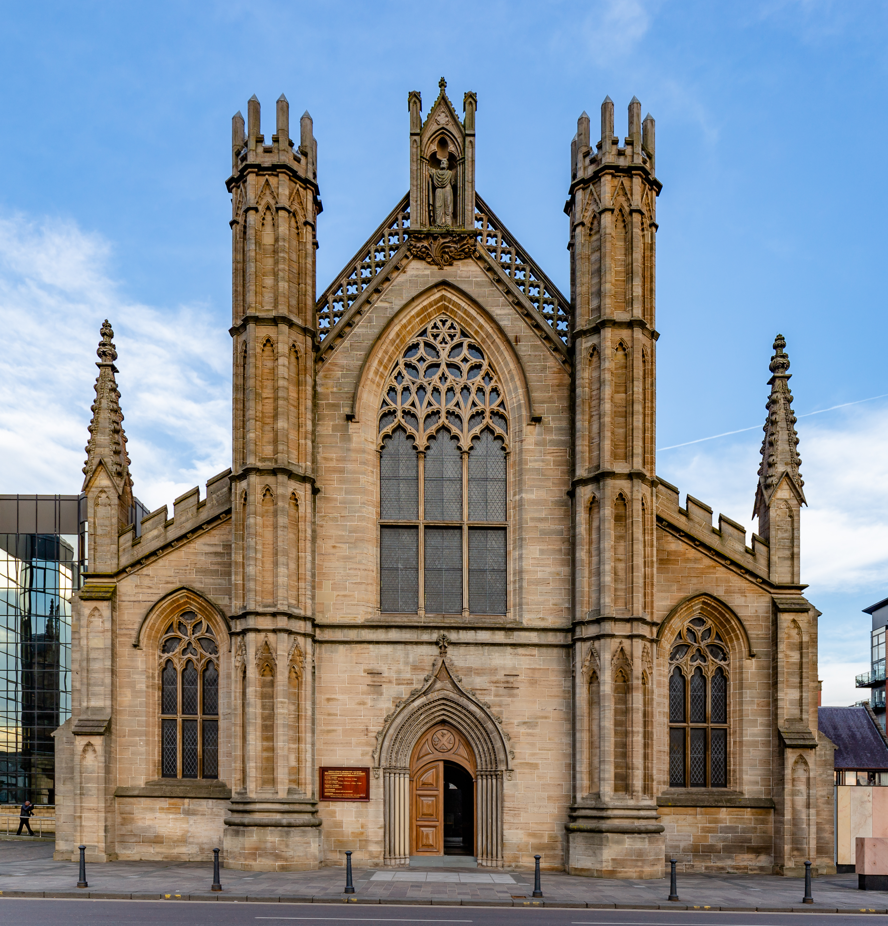 Front view of the St Andrew's Cathedral, Glasgow, Scotland